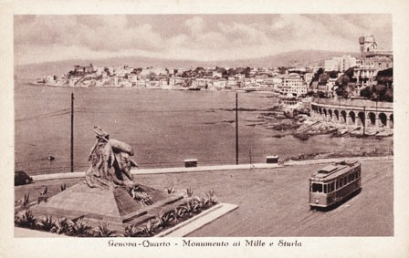 Genova Quarto monument with tramway